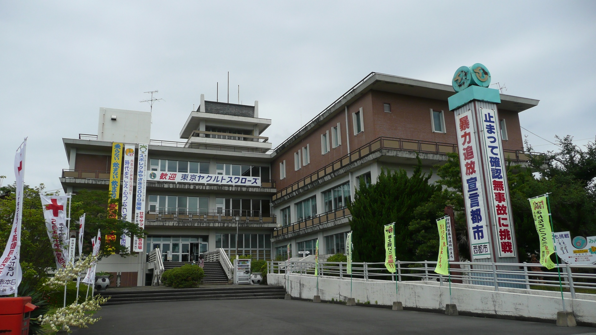 Saito city office (Miyazaki Prefecture, Japan)